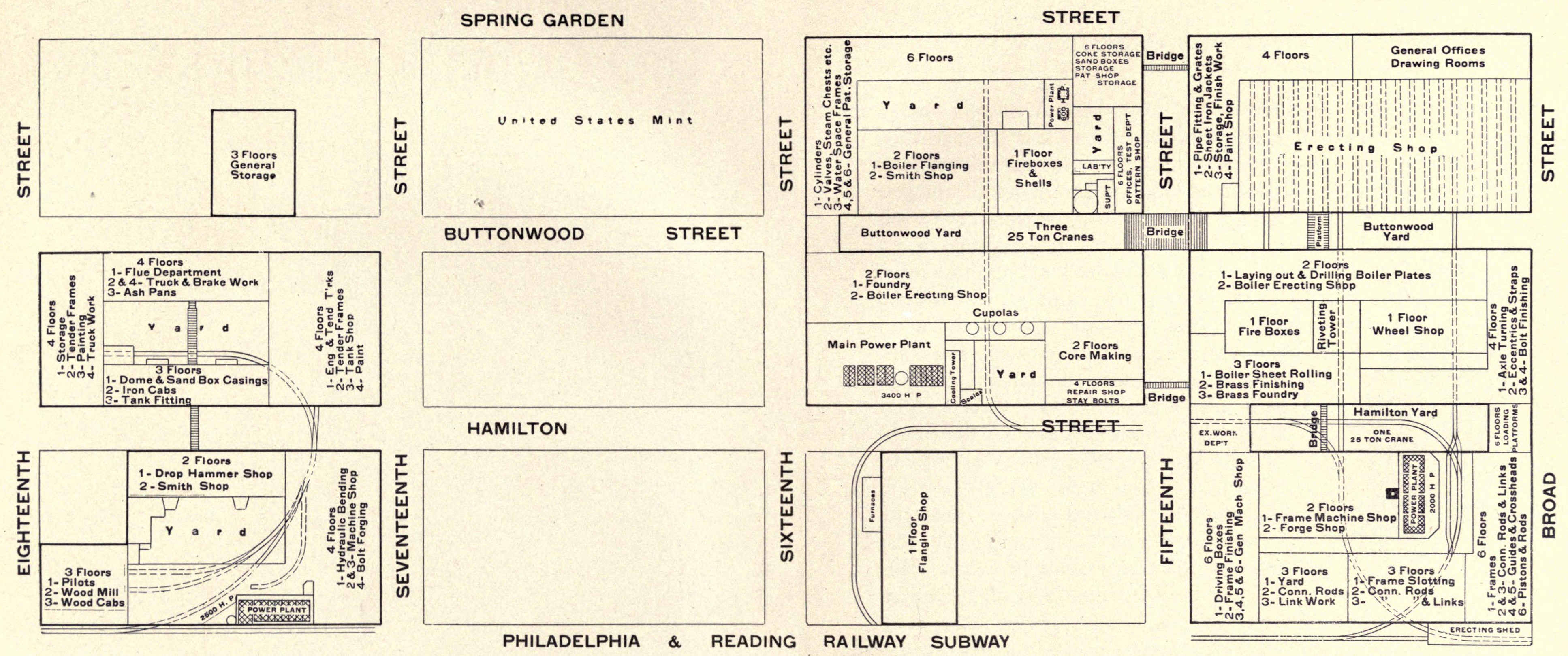 Plan of the Baldwin Locomotive Works factory shops in Philadelphia ca. 1902-03, one of the largest locomotive manufacturers in the United States at that time, as well as one of the most productive in US railroading history. Note: image made by merging a two-page image into one and deleting the overlap space.